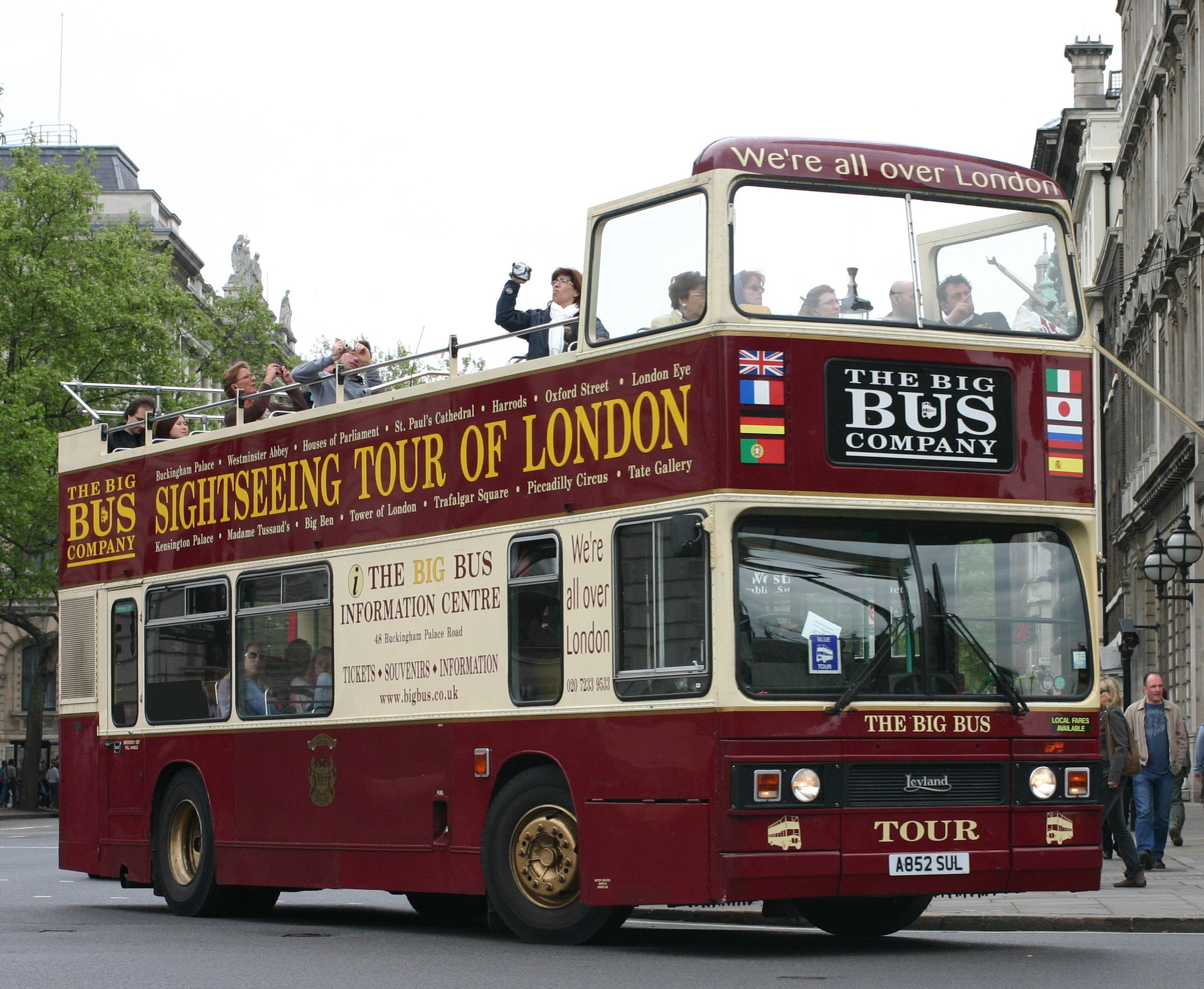 The Big Bus Company bus EM852 (reg. A852 SUL), a 1983 Leyland Titan (B15), pictured outside Westminster tube station, London, operating their 'blue route' sightseeing tour. It's making a left turn from Parliament Street into Bridge Street, to head over Westminster Bridge. The 912th production Titan, it's from the later batch built at Leyland's expanded factory in the Lillyhall Industrial Estate in Workington (earlier ones were built by British Leyland subsidiary Park Royal Vehicles in Park Royal, London). As with the vast majority of production, it was delivered new to London Transport as part of the dual-door T-class, allocated fleet number T852. On privatisation it passed into the fleet of London Central. Having been sold around July 1998, by January 2001 it was with The Big Bus Company, who had bought it via Allco Passenger Vehicles and converted it to an open top bus, also removing the centre door. In 2009 it was exported to the City Sightseeing franchise in San Francisco, USA, for further use as a tour bus. For the North American market a door in the offside was added, and the upper deck front windscreen was reduced to half its original height. It enetered service in San Francisco still wearing the maroon and cream base colours of the Big Bus Company, but with red City Sightseeing logos applied and the large yellow signwriting altered to read 'SIGHTSEEING TOUR OF SAN FRANCISCO'.